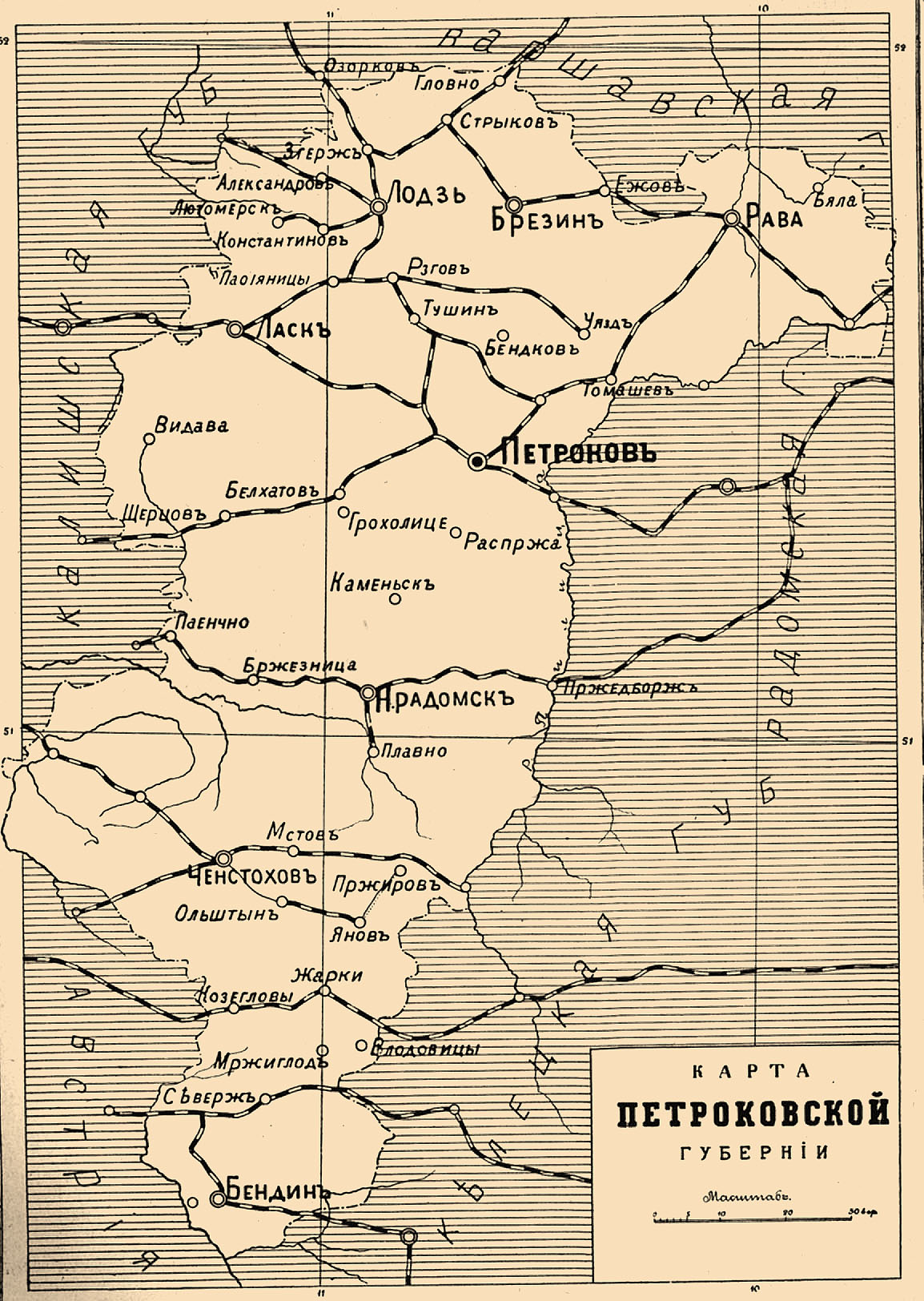 Illustration from Brockhaus and Efron Jewish Encyclopedia (1906—1913)